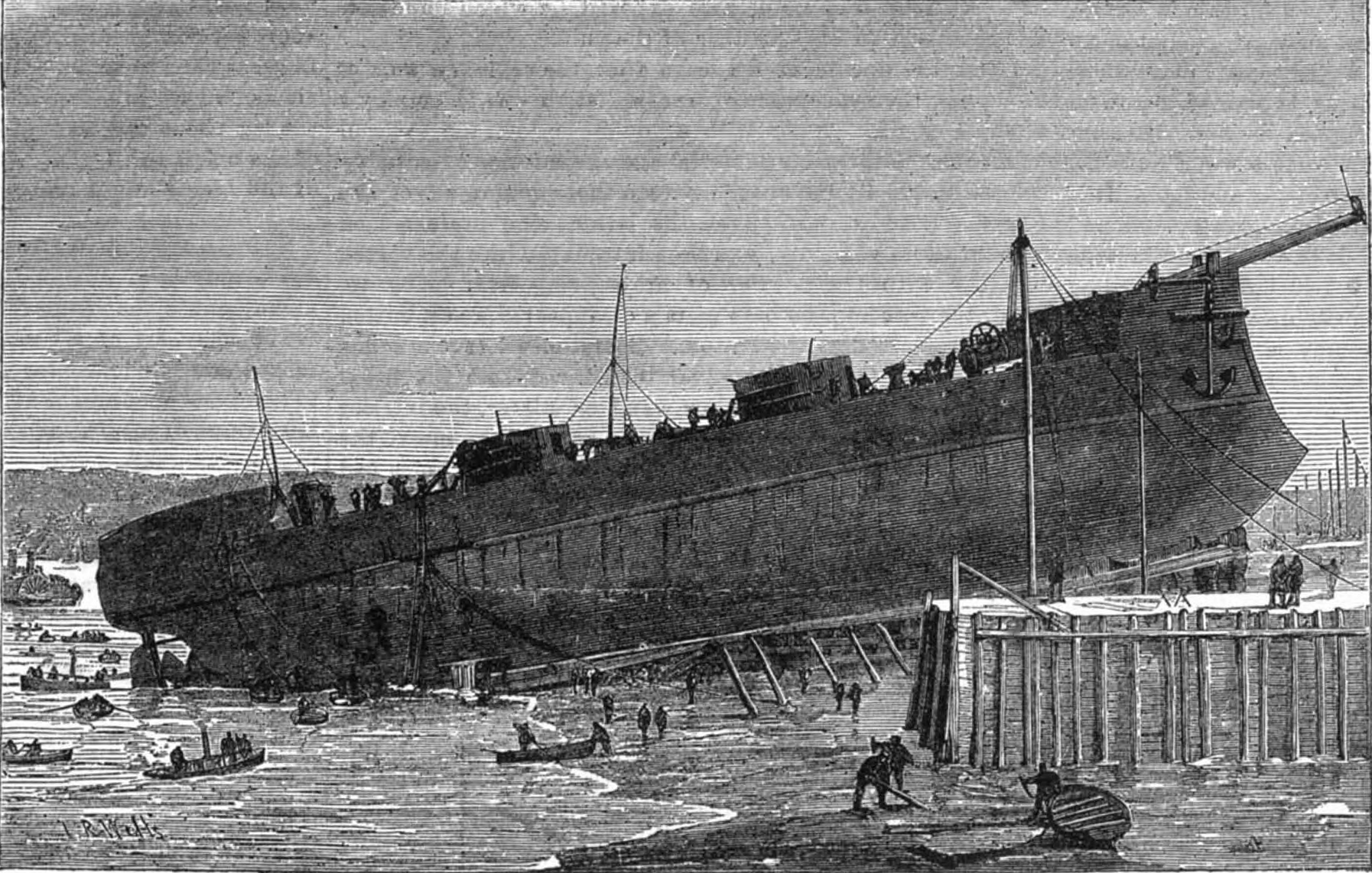 The Brazilian battleship Independencia was damaged while being launched on July 30, 1874. The story was told in the September 19, 1874 issue of Scientific America along with this illustration, taken from Illustrated London News. Independencia was eventually bought by the Royal Navy and became HMS Neptune.